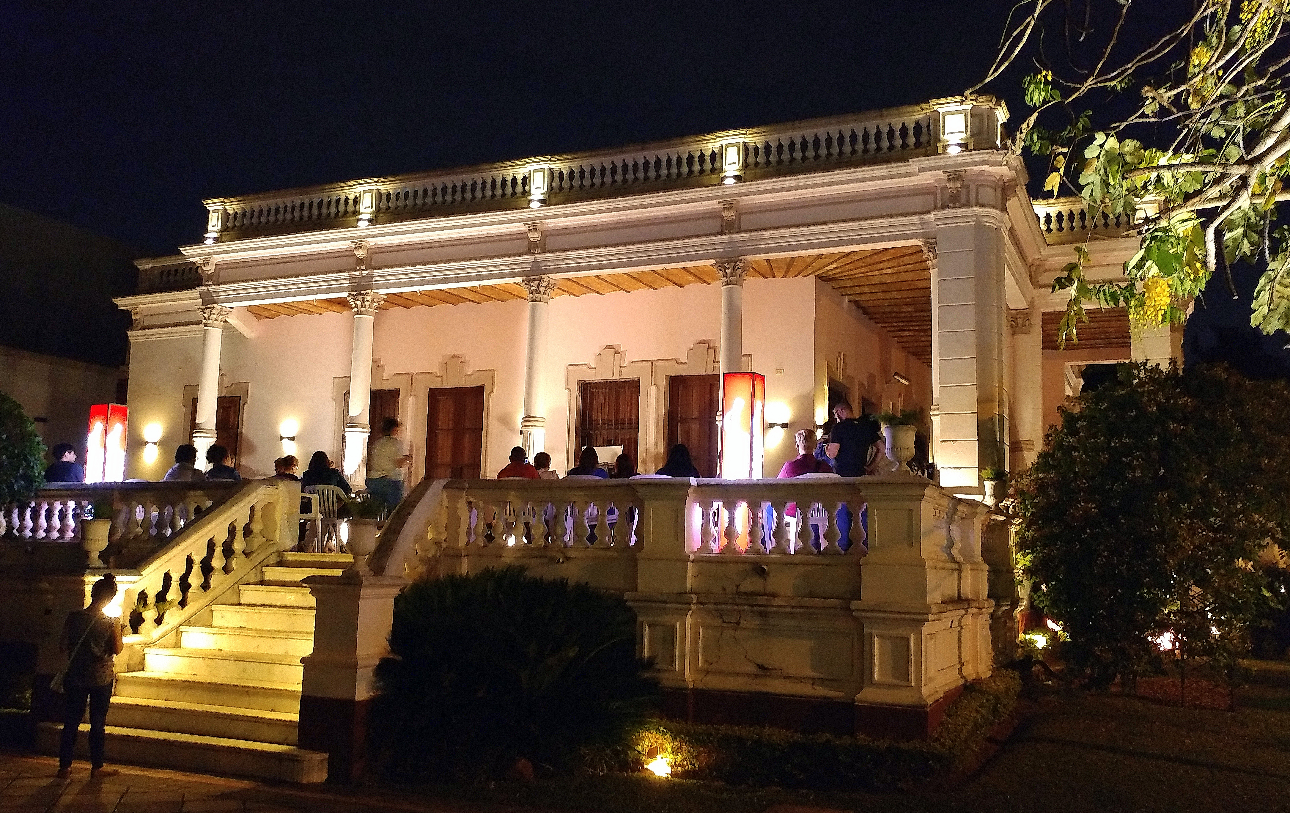 Night view of the Museo de Arte Sacro in Asunción, Paraguay.